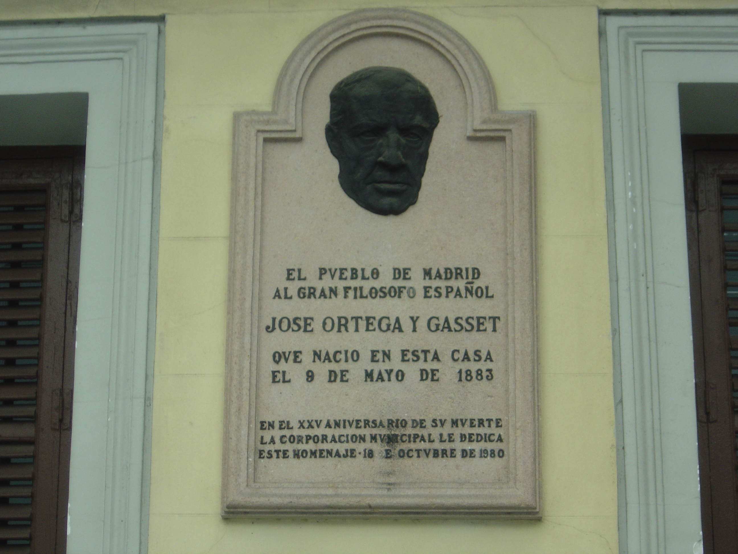 Ortega y Gasset birthplace in Madrid